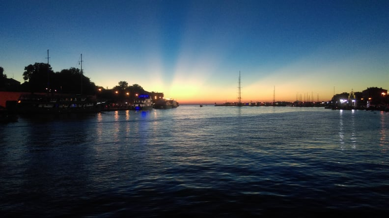 Sunset in Zadar. Pghoto is taken from the Zadar's Bridge in 2016.